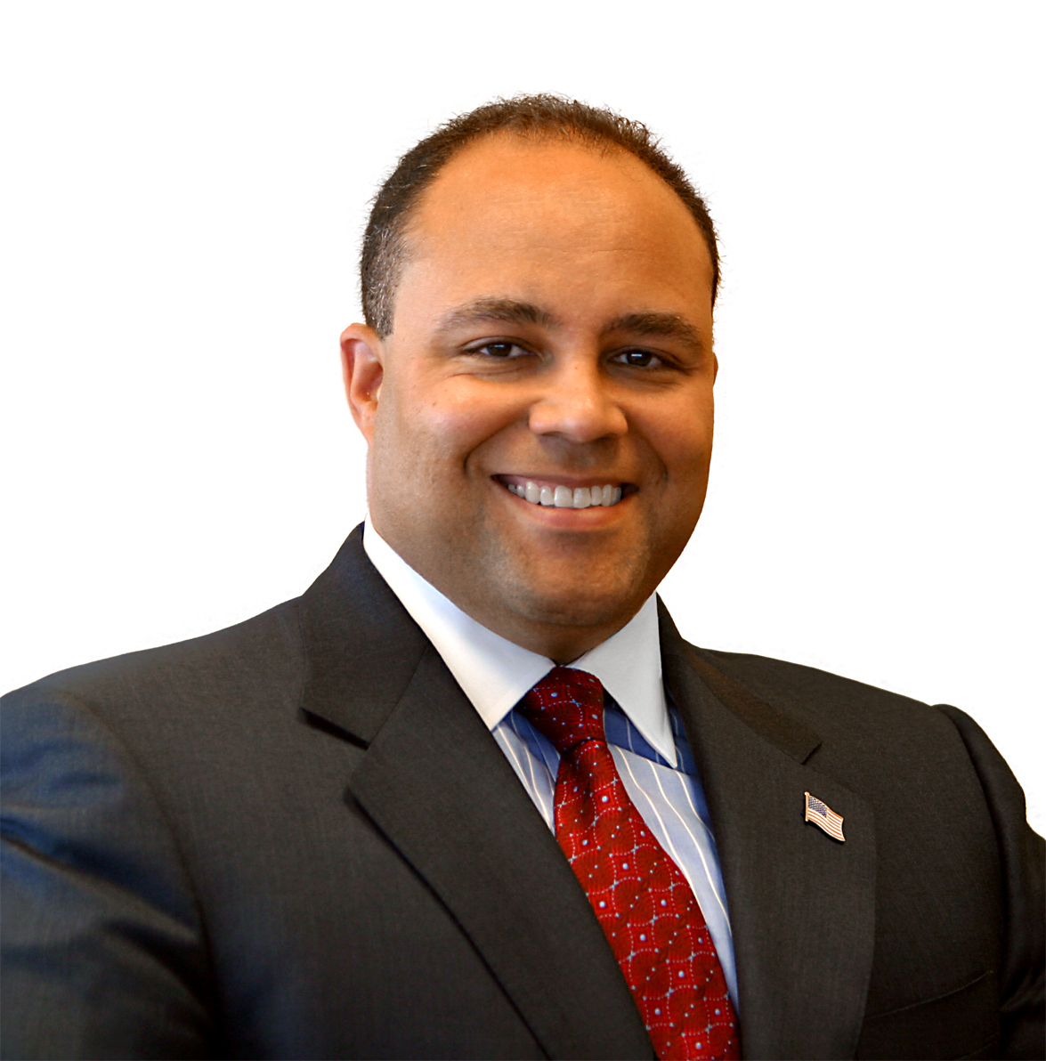 Photograph of Michael Powell